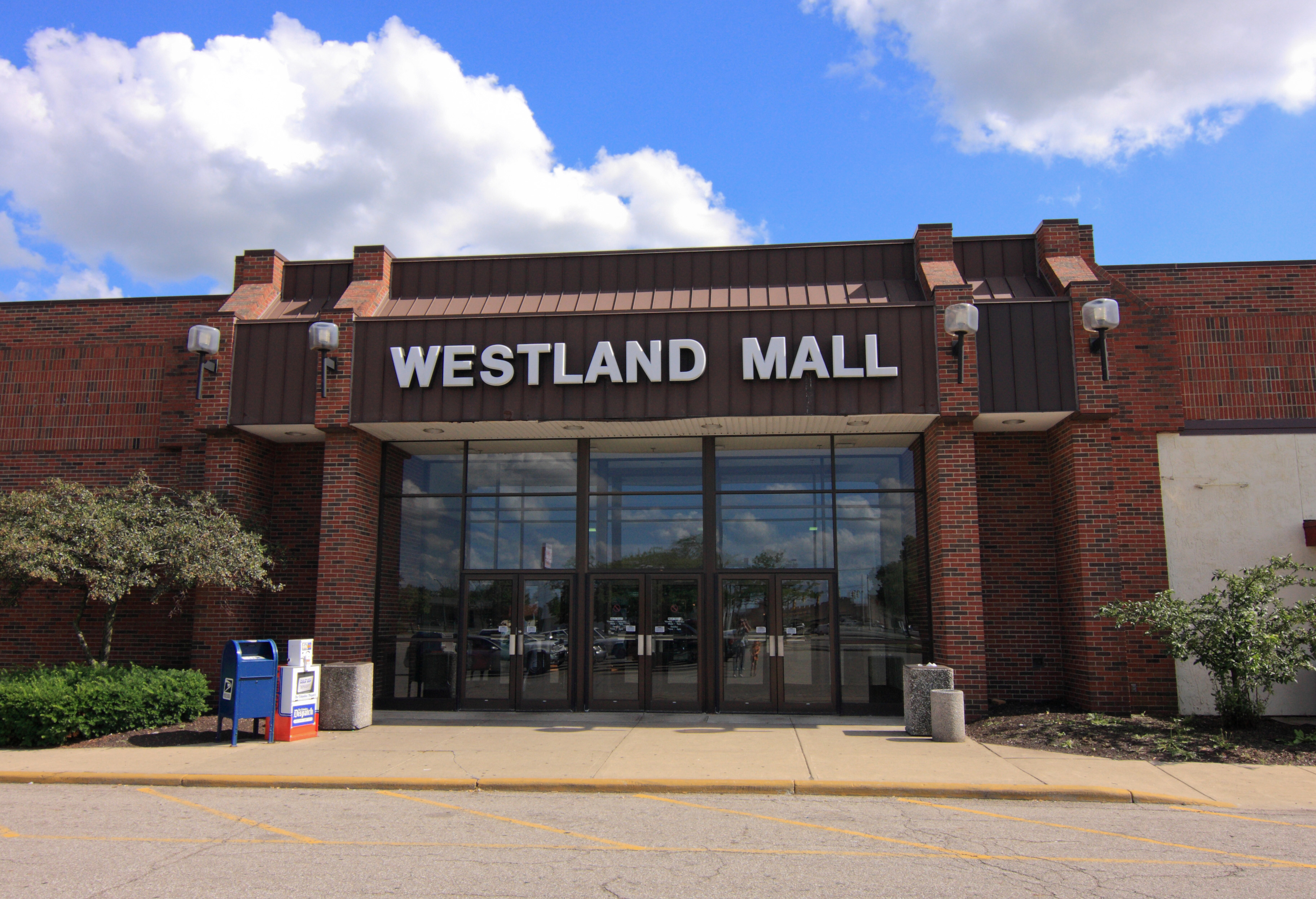 One of the entrances to Westland Mall on the west side of Columbus, Ohio. At one time, this place was a great one to visit.